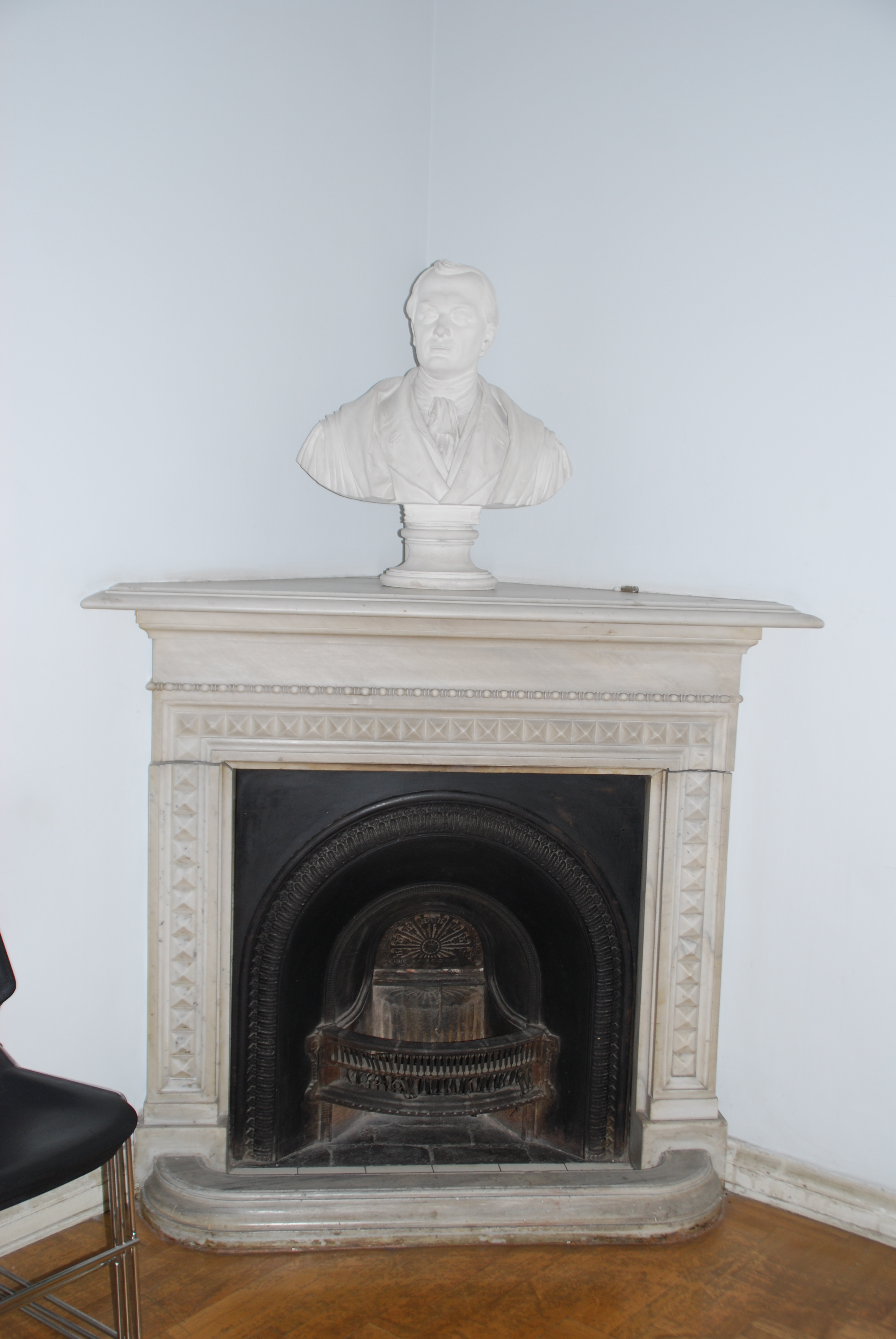 German Archaeological Institute in Athens.